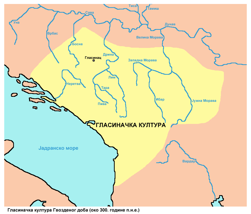 Iron Age Glasinac culture (around 300 BC).